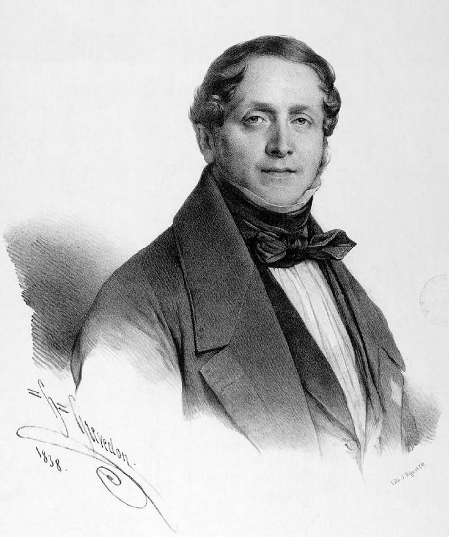 Italian opera singer Marco Bordogni (1789-1856) by Henri Grevedon (1786-1860))